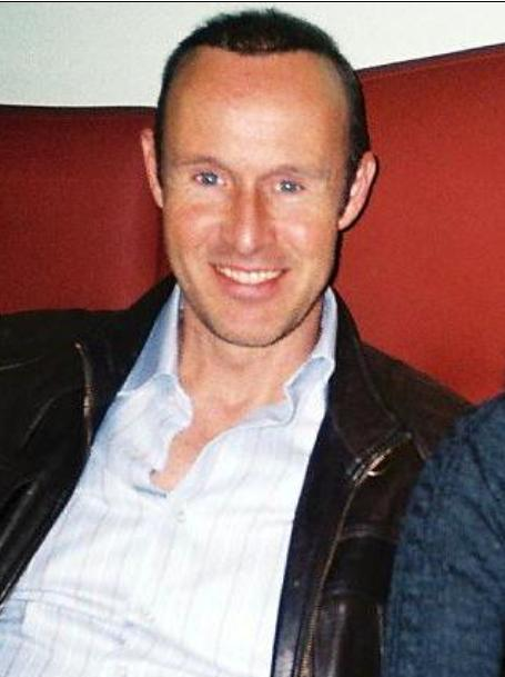 Mark BartholdssonPlace: Coffeehouse by George, Götgatan, Stockholm, Sweden